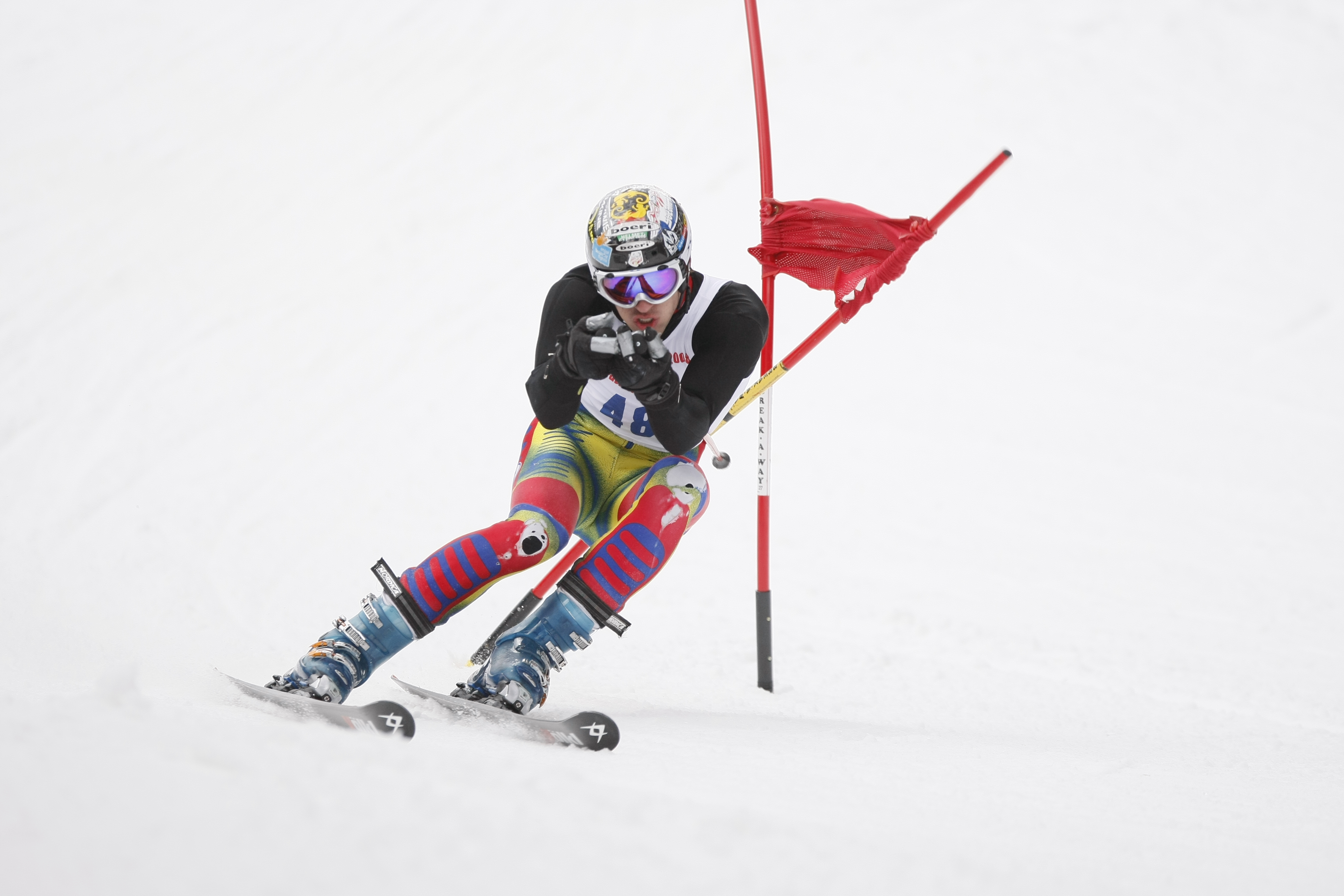 A Giant Slalom Alpine Ski Racer, racing in Snowshoe, WV on 2/9/2008 in the Southeastern Conference of the United States Ski Collegiate Ski and Snowboard Association (USCSA) USCSA